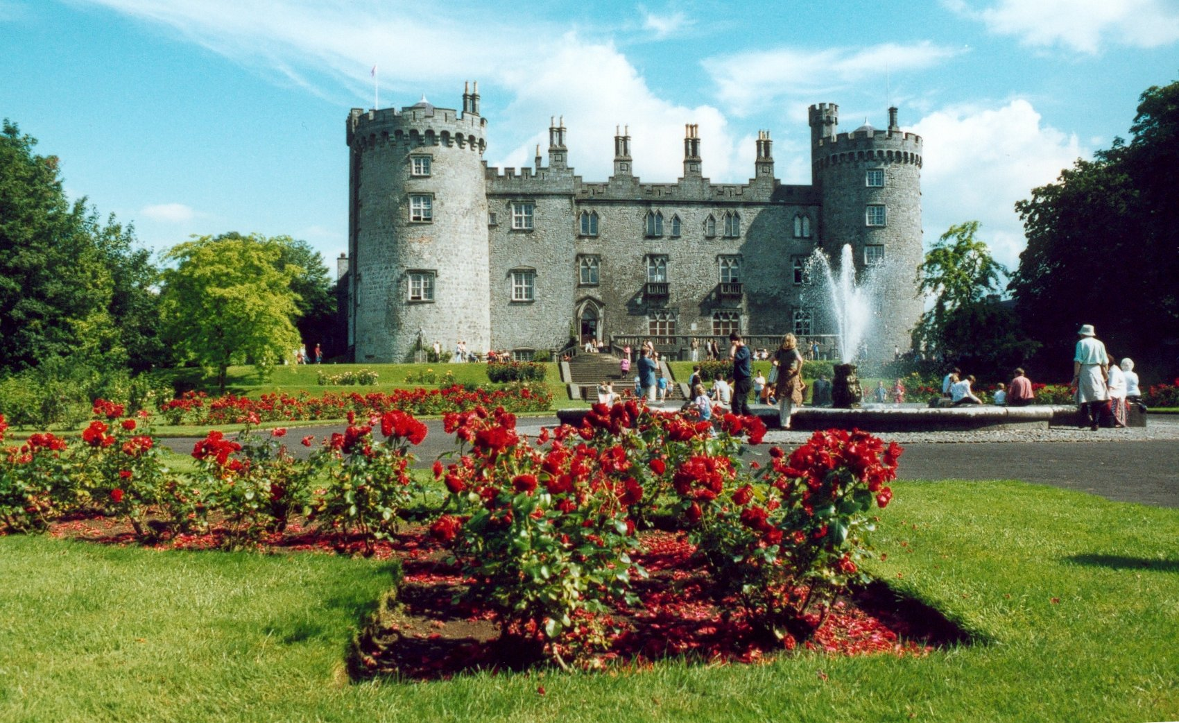 Kilkenny Castle, Ireland